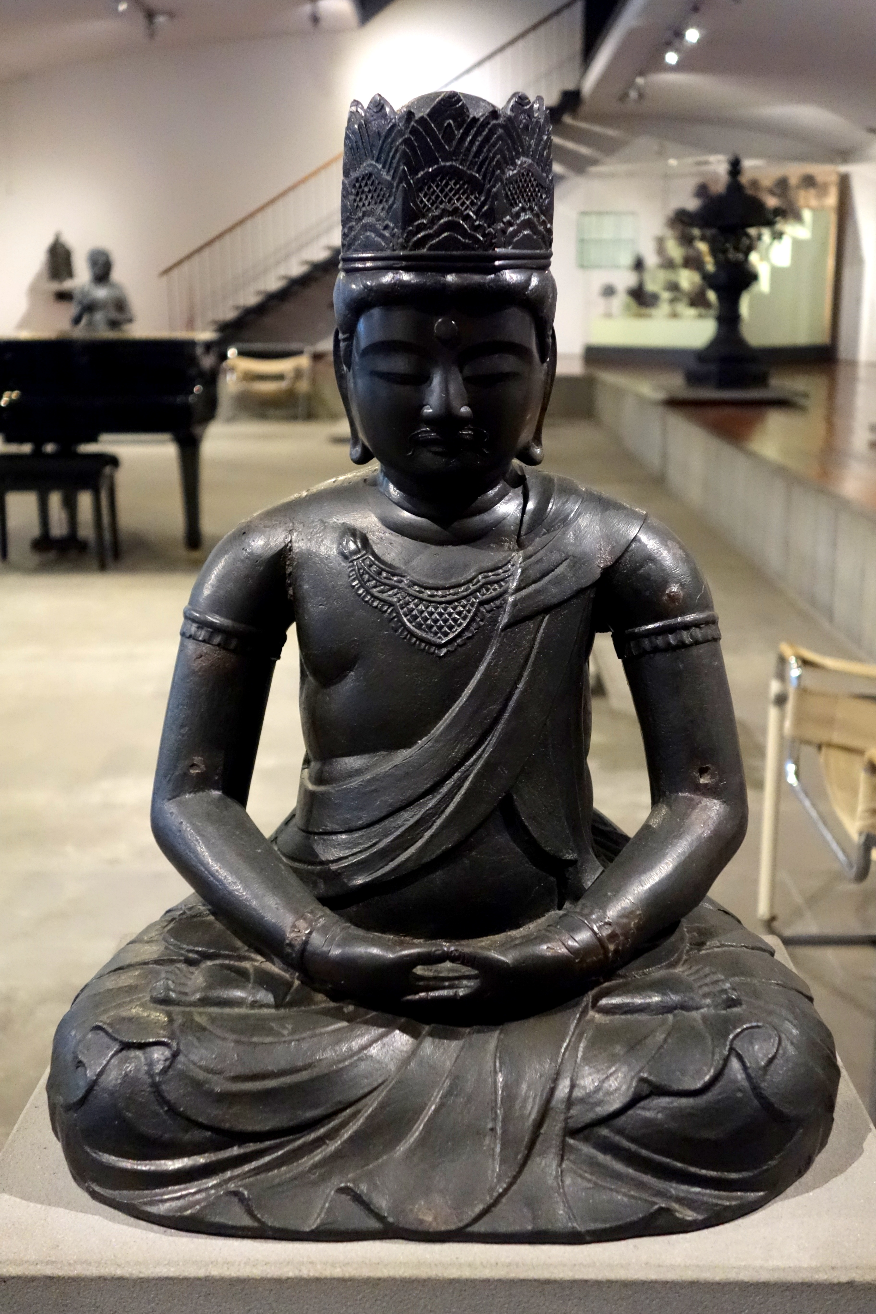 Exhibit in the Museo d'Arte Orientale Edoardo Chiossone, Piazzale Giuseppe Mazzini, 1, Genoa, Italy. This artwork is old enough so that it is in the public domain.